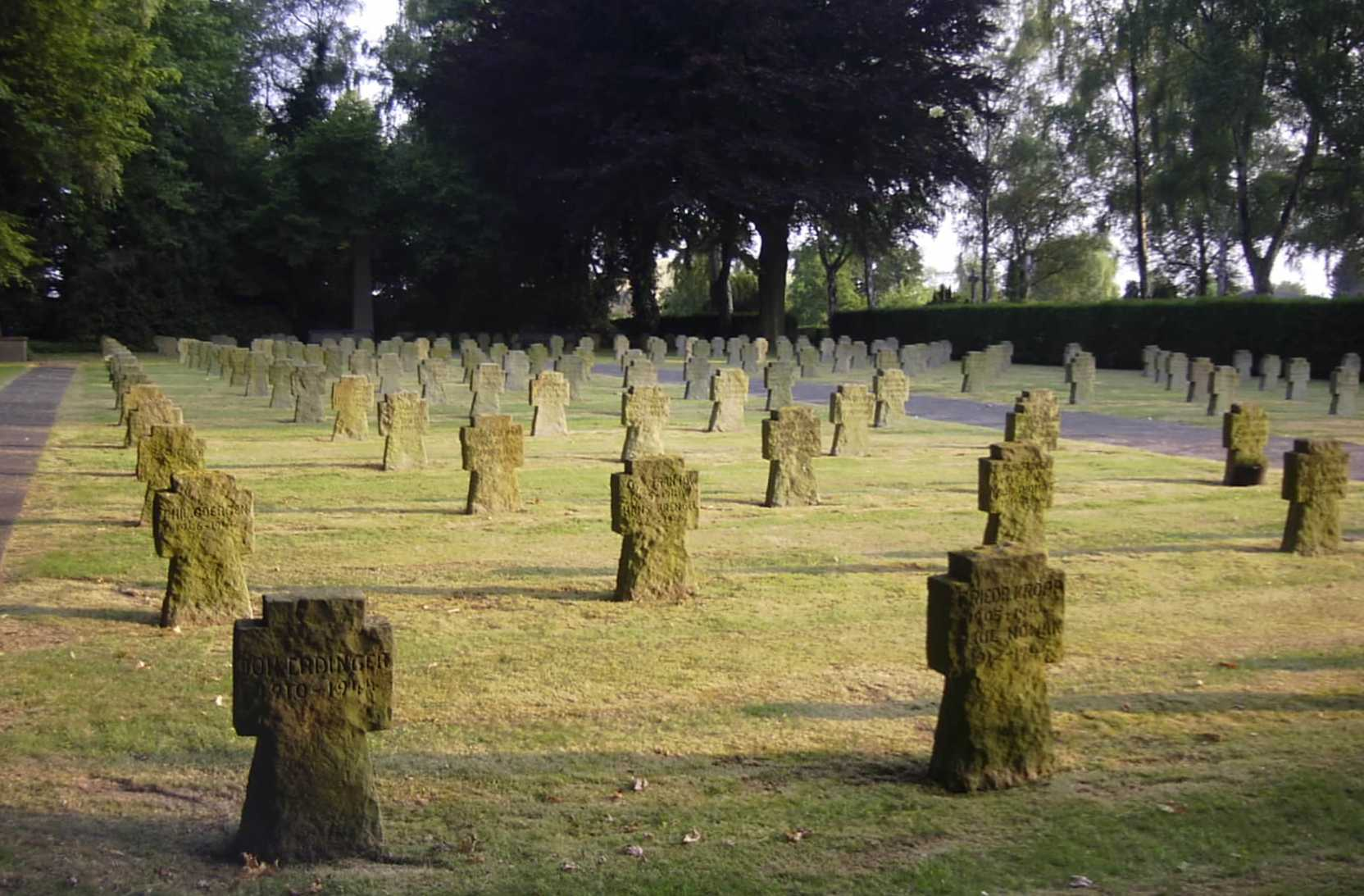 world war II cemetery, Erkelenz-Lövenich, NRW Germany